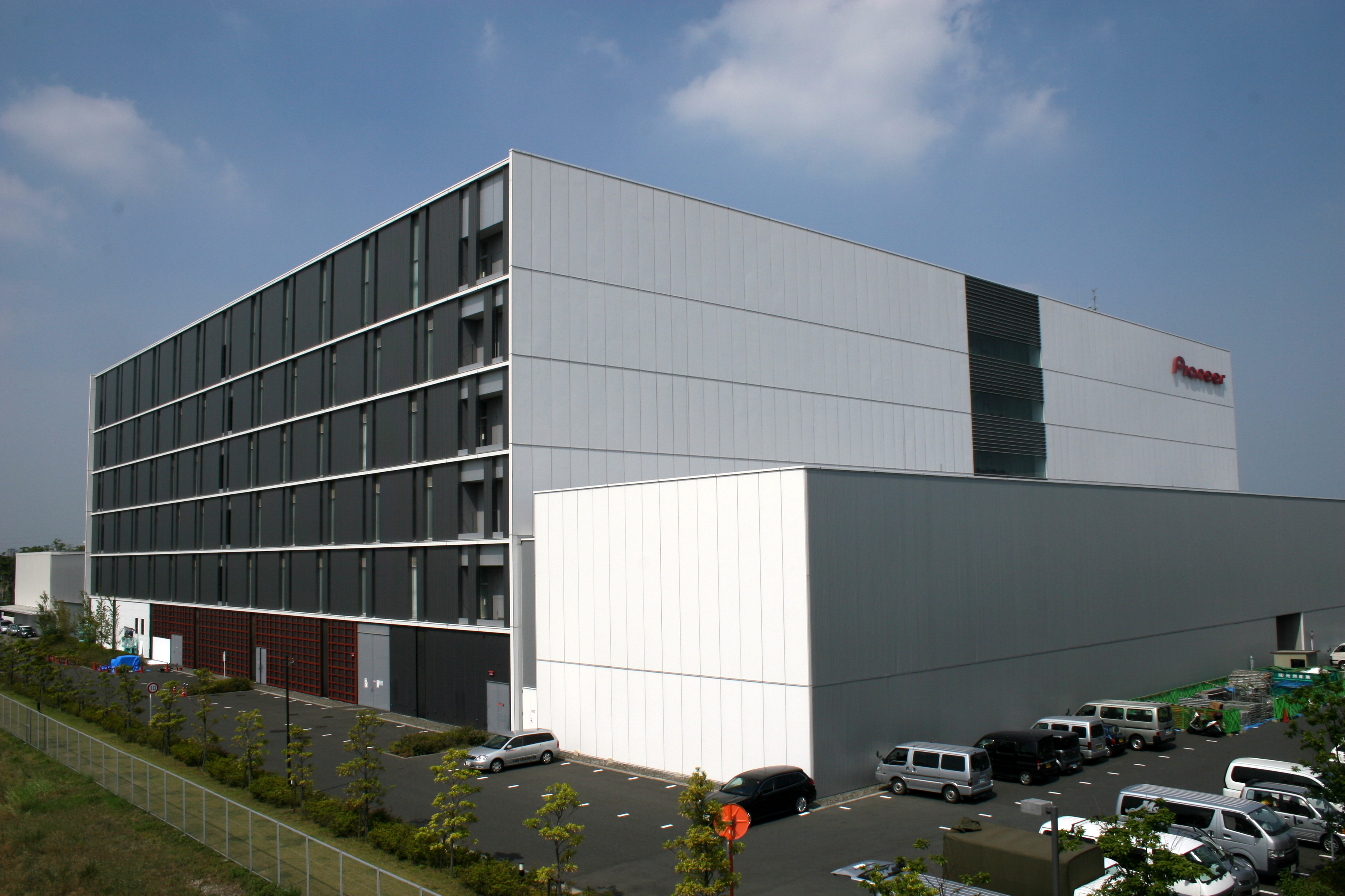 Headquarters of Pioneer Corporation in Saiwai-ku, Kawasaki, Japan. The headquarters were moved to Tokyo in March 2016 and this building is occupied by Fujitsu as of October 2016.